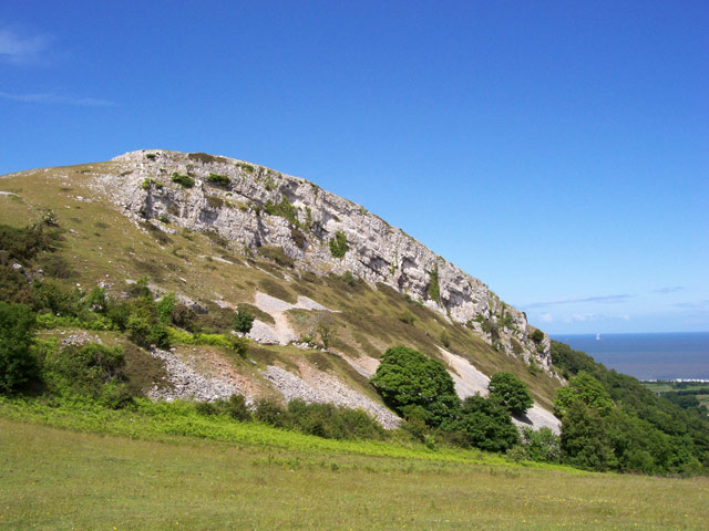 Craig y Forwyn The maiden's rock? There must be a story attached...... A seemingly natural outcrop, the extensive scree of debris and remains of benching with produced limestone boulders indicate that this too is extensively quarried. The local Carboniferous Limestone has always been a valuable asset, both for building stone and agricultural lime. The narrow gap of the Dulas valley as it cuts through the coastal hills is a natural point at which to exploit these mineral riches.